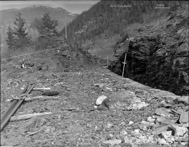 From the construction of the norwegian railroad Granvinbanen, Voss, Hordaland